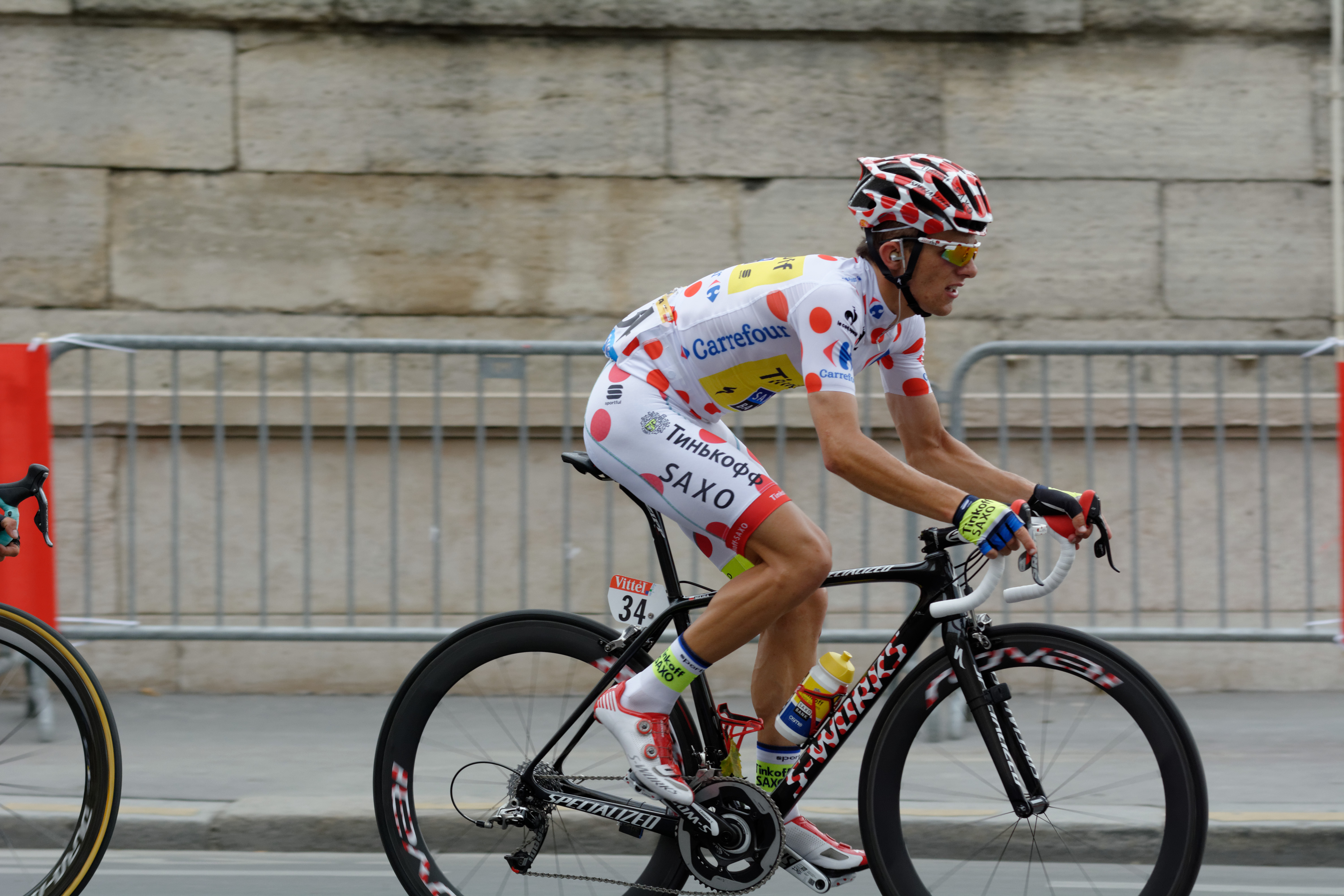 Stage 21 of the 2014 Tour de France, Paris.